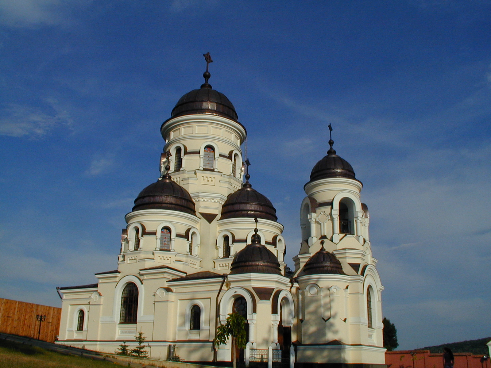 Monastery church of Capriana, Moldova.